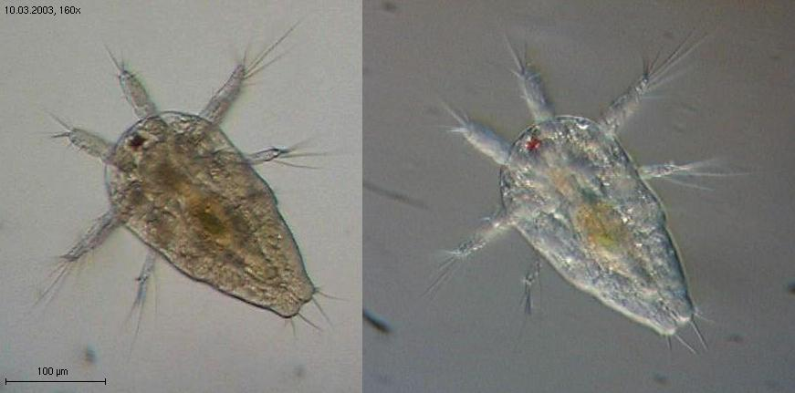 Nauplius of the copepod Macrocyclops albidus